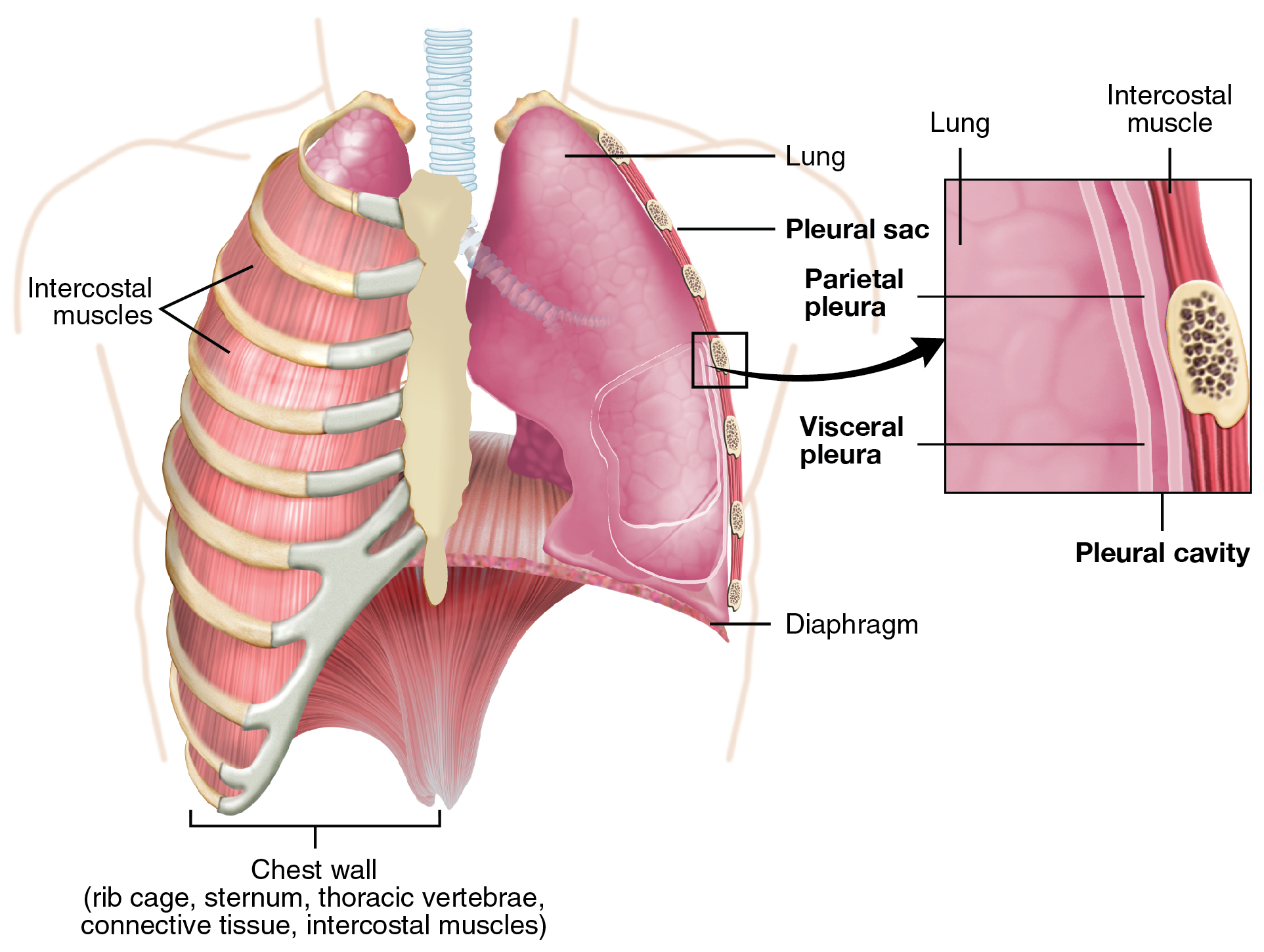 Illustration from Anatomy & Physiology, Connexions Web site. Jun 19, 2013.